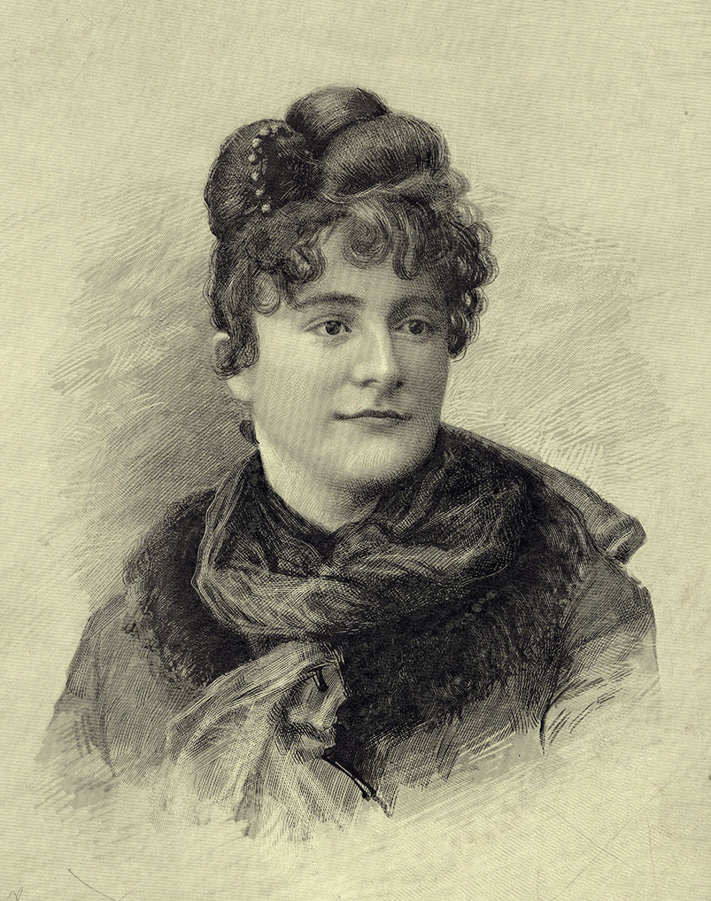 Portrait of Teresina Tua, violinist (1867-1956).